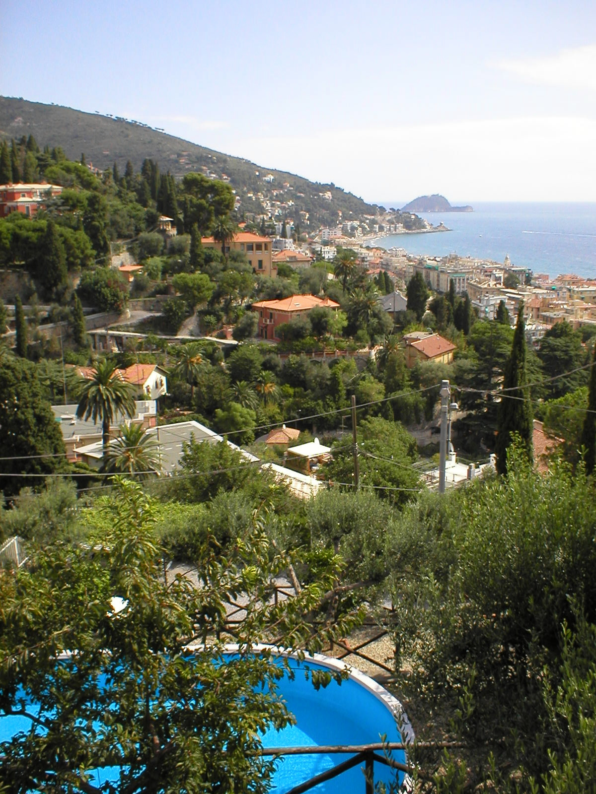 View of Alassio with island Gallinara in the background